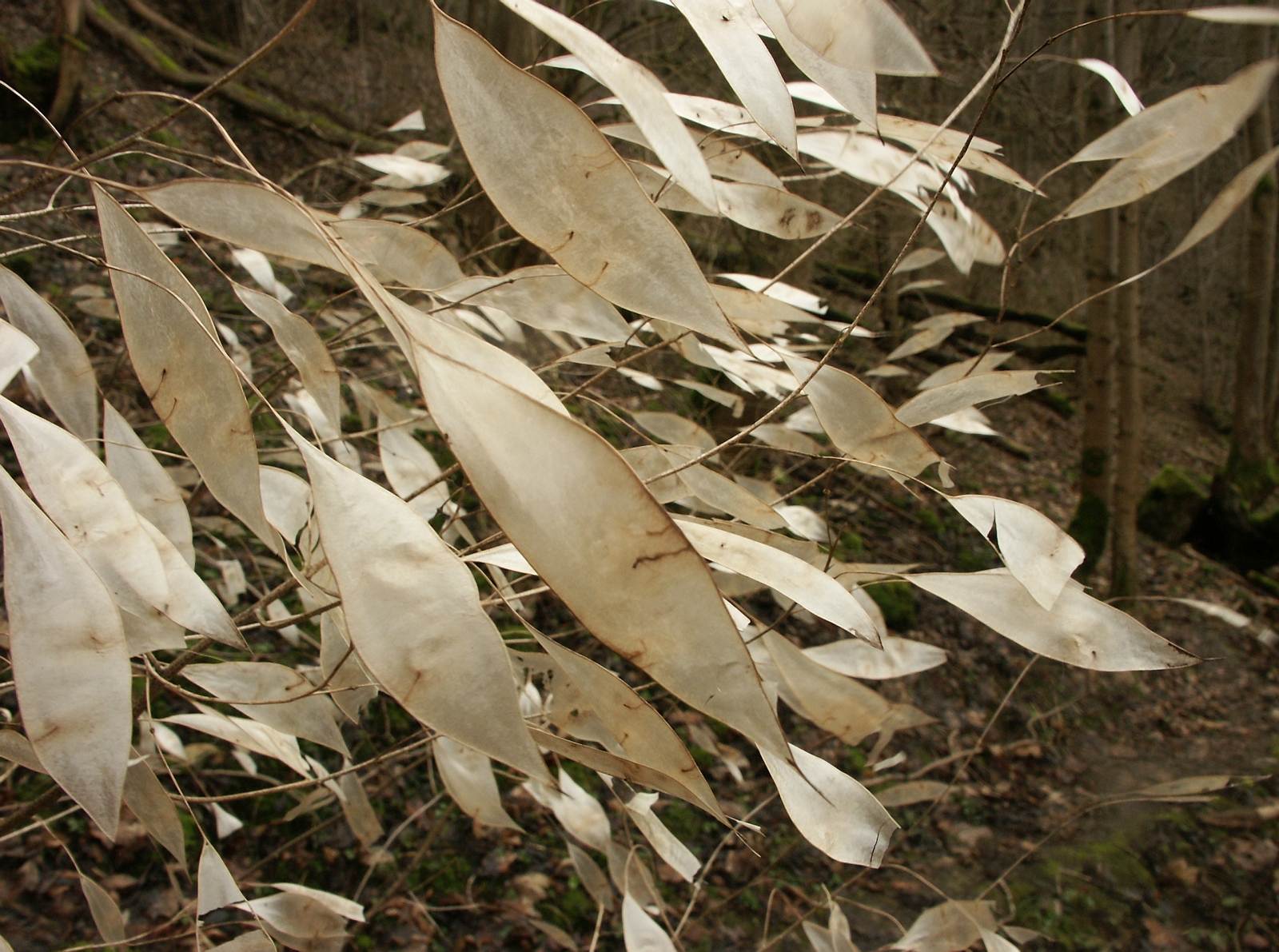 Lunaria rediviva, Hohenlohe, Germany